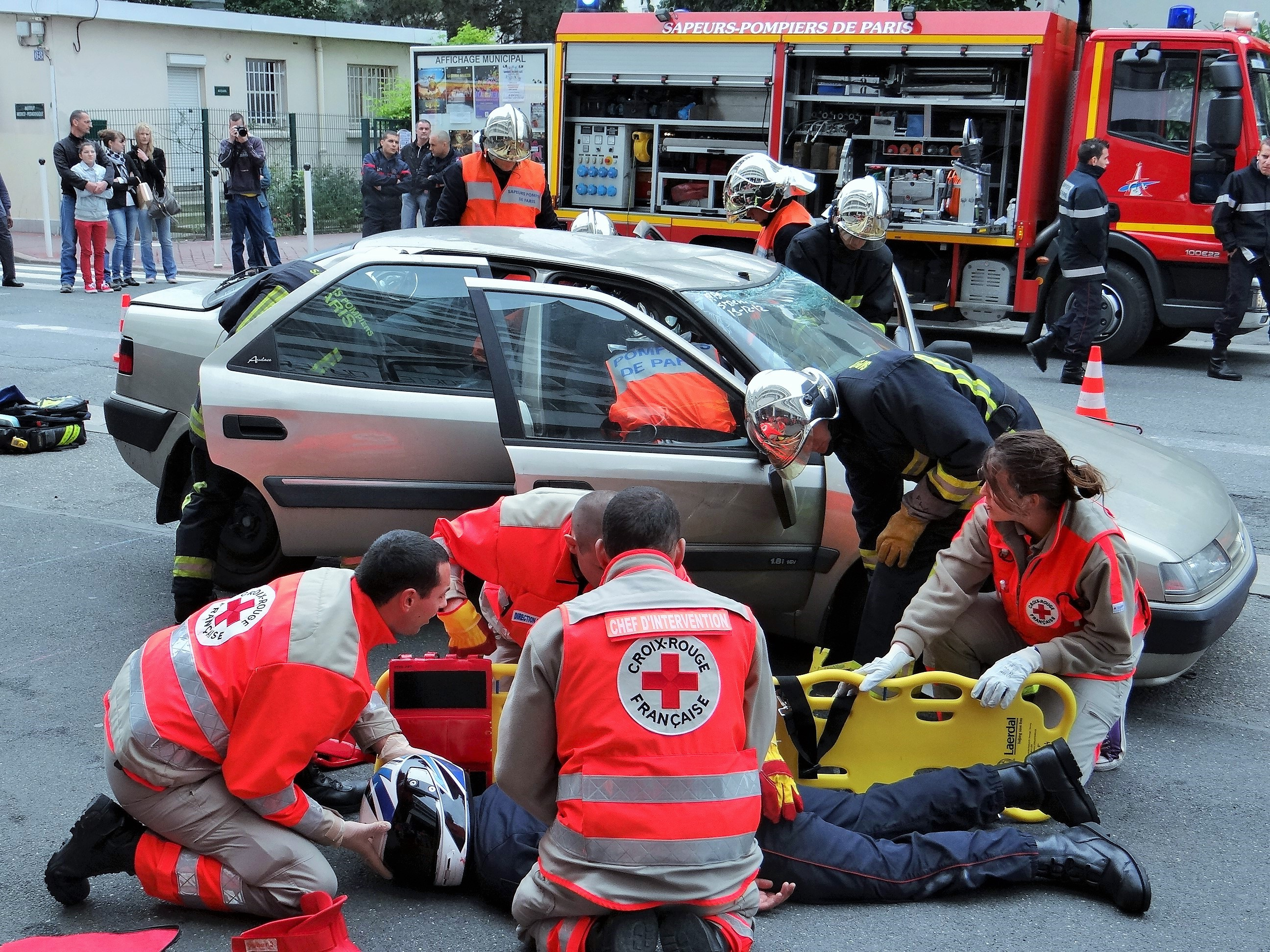 rescue demonstration to victim by the firemen of Paris and the red cross, Montrouge, France